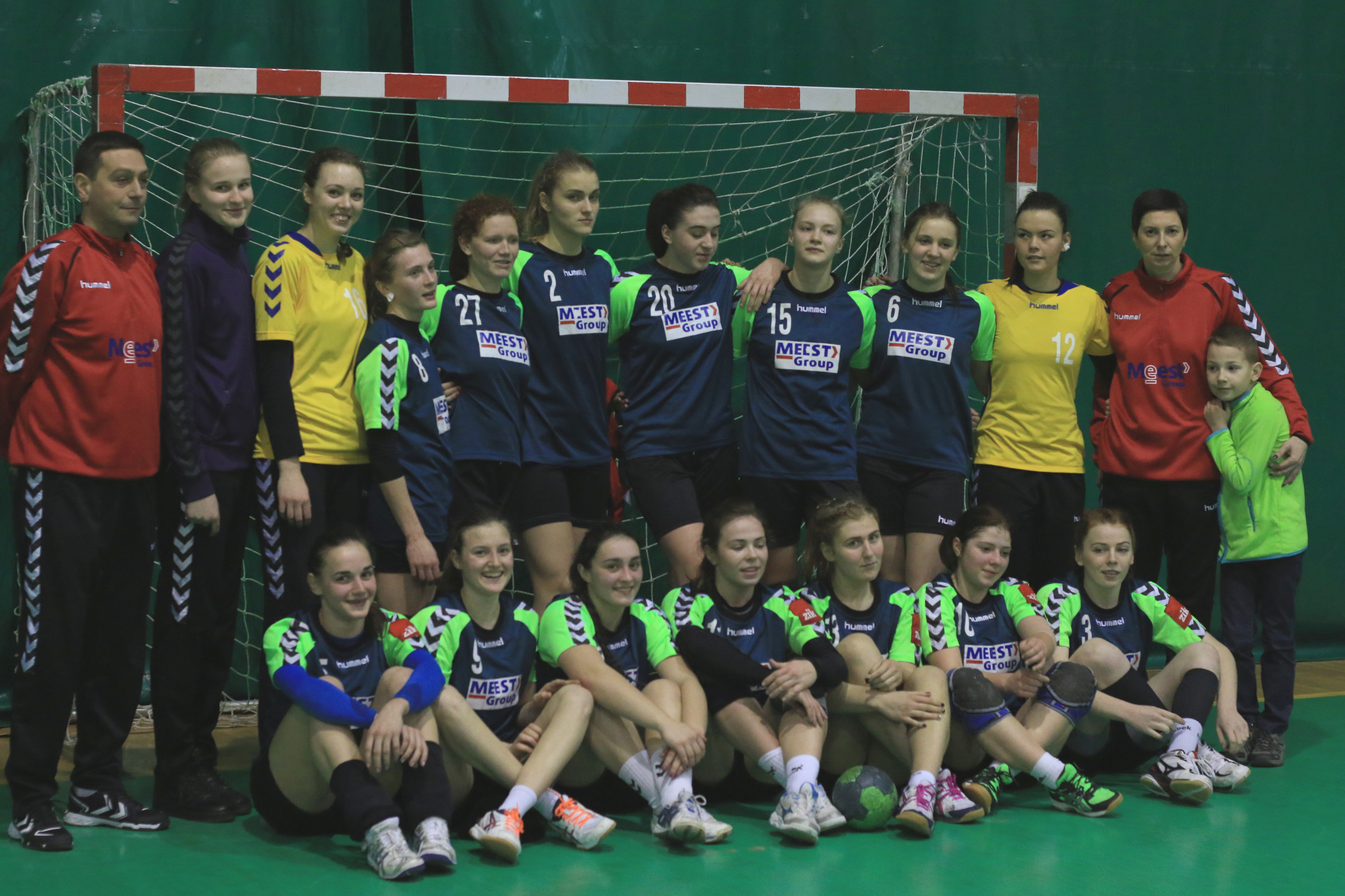 HC Galychanka (Lviv) in season 2015/2016 stand: Rostislav Kozakiewicz (doctor), Olha Vasyliyka, Mariia Gladun, Olesia Parandii, Natalya Turkalo, Nataliya Savchyn, Nataliya Stryukova, Viktoriya Sidletska, Anastasiia Baranovych, Yelyzaveta Hilyazetdinova, Tatiana Stefan (coach); sit: Nataliia Volovnyk, Maryna Konovalova, Maryana Markevich, Lesya Smolinh, Nataliya Sabova, Anastasiia Dorozhivska, Vlada Kosmina.